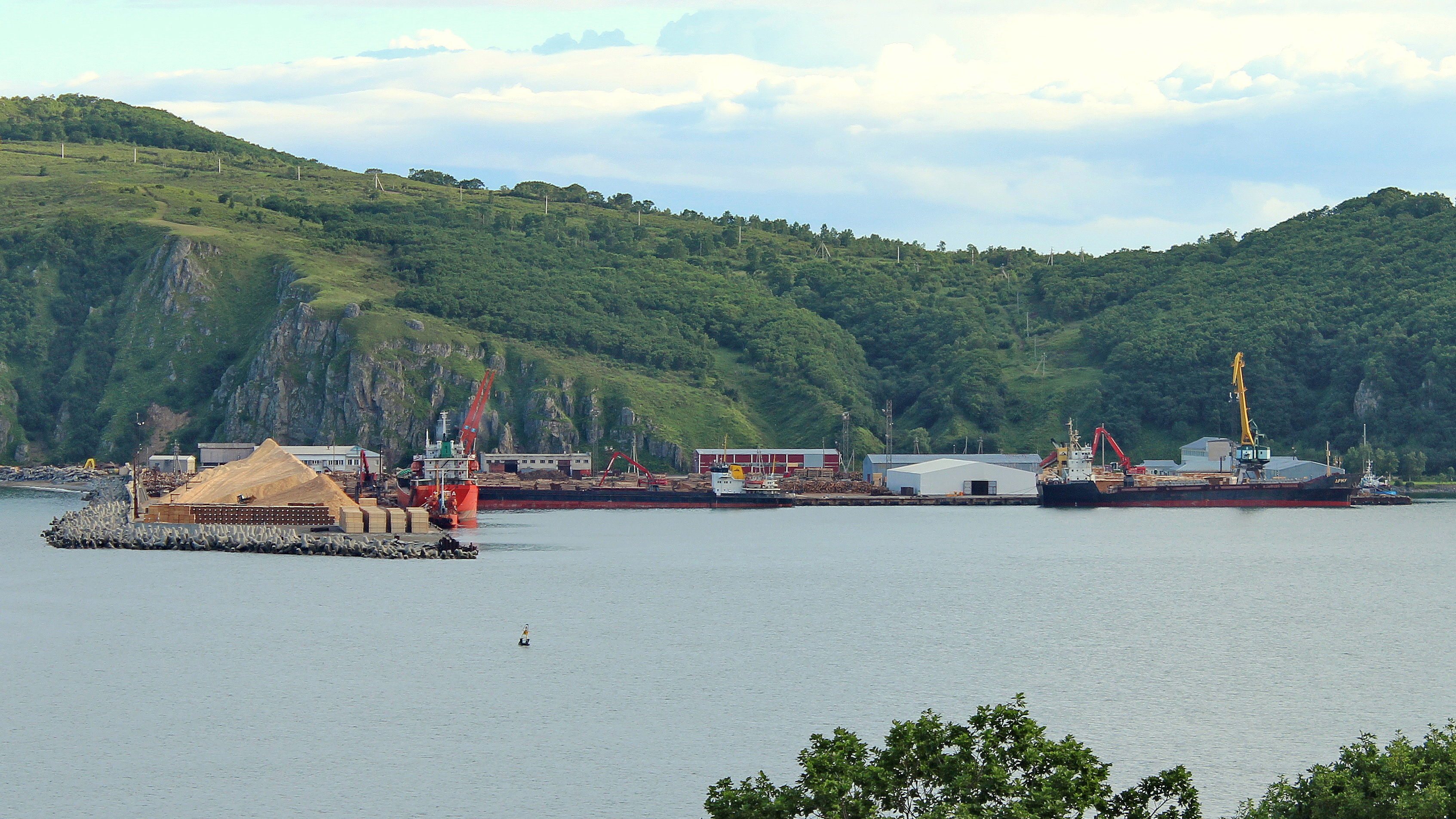 View of the port of Plastun from the settlement in 2012.